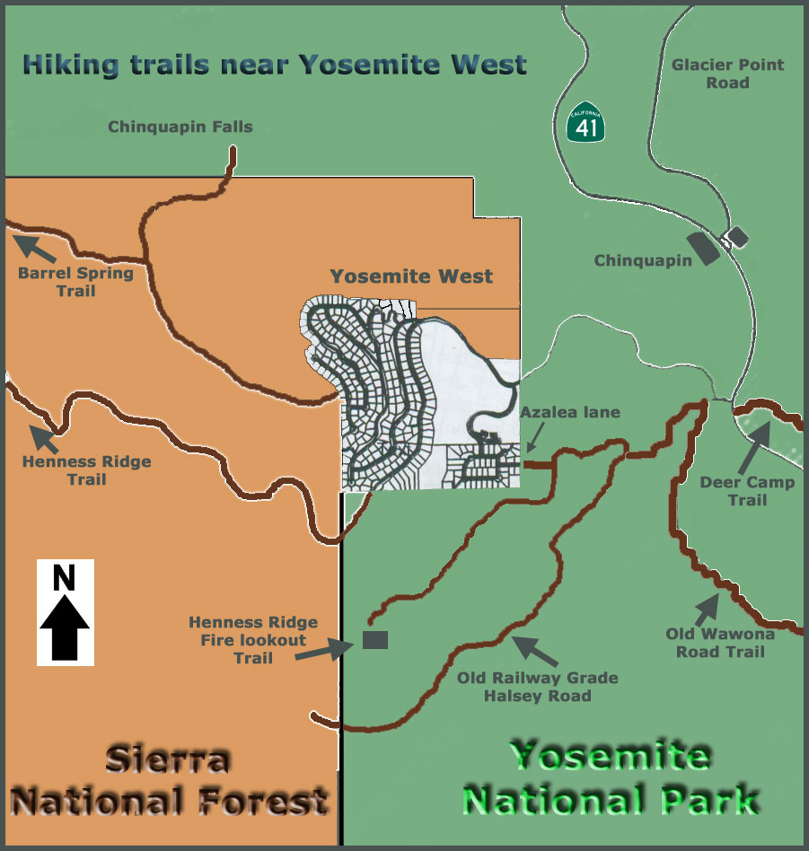 Hiking trails near Yosemite West, California (Yosemite National Park)